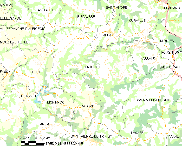 Map of French municipality Paulinet